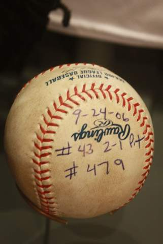 Baseball from Trevor Hoffman's 479th save (dated 24 September 2006) at the National Baseball Hall of Fame and Museum.